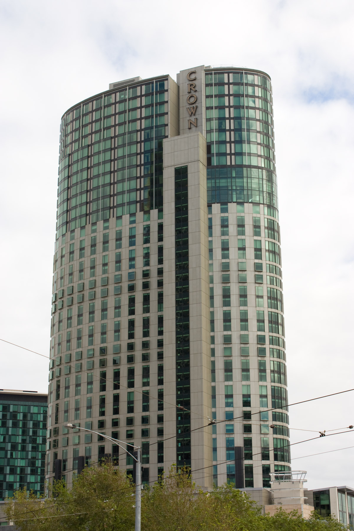 The premium Crown Towers Hotel operates within the complex, located on the banks of the Yarra River overlooking the city centre, Kings Domain, Port Phillip and Docklands.